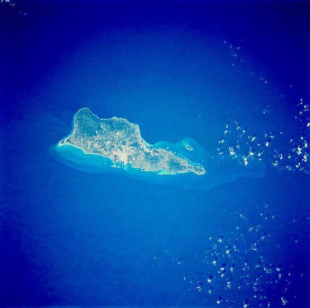 Saint Croix Island, United States Virgin Islands - January 1993